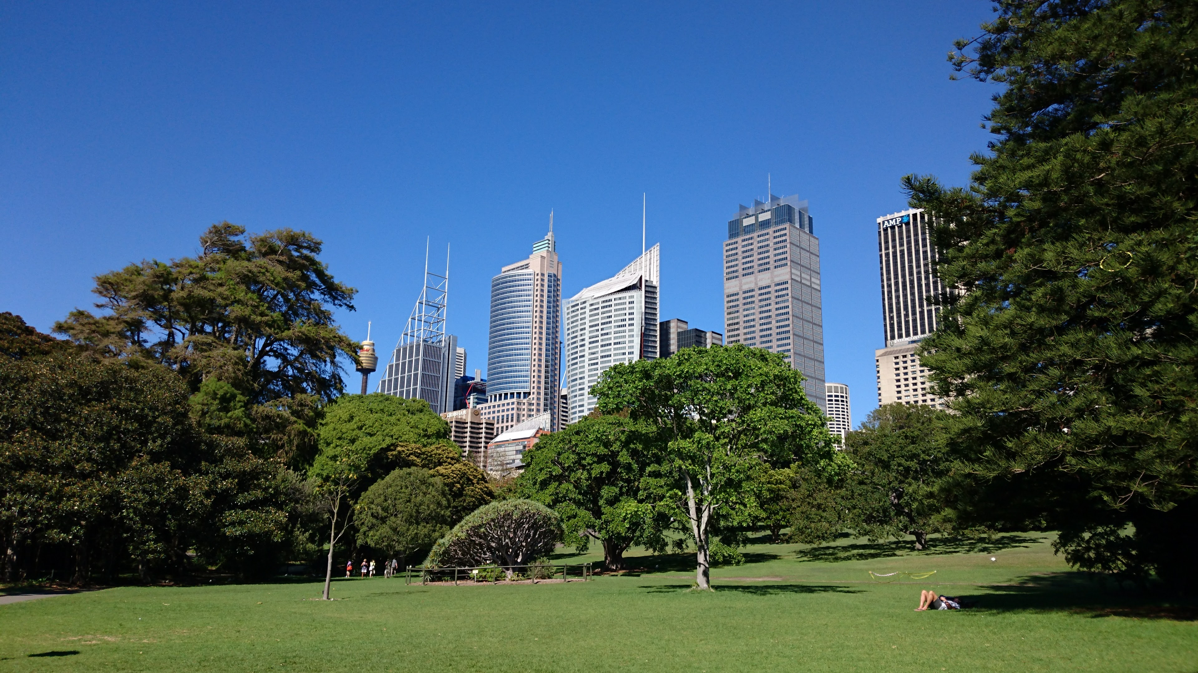 A famous park in Sydney located just beside the Opera house.